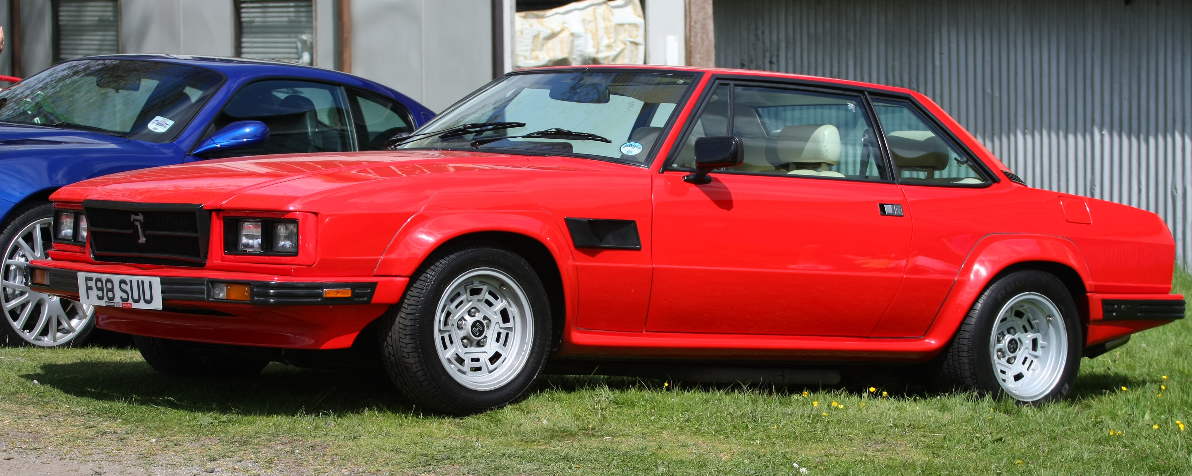 1988 or 1989 De Tomaso Longchamp at Auto Italia Italian car day 2009, Brooklands, UK